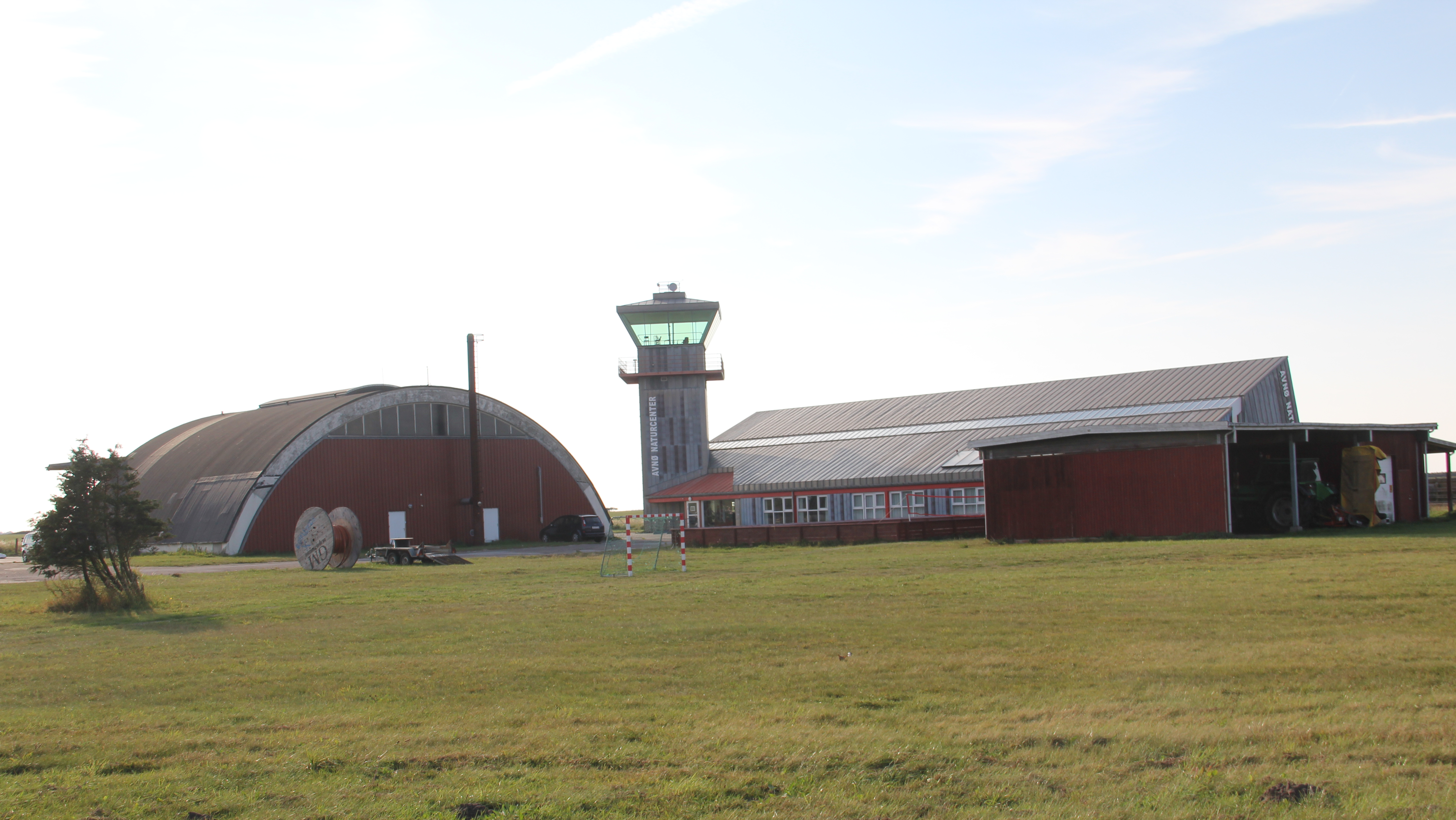 Avnø Naturcenter